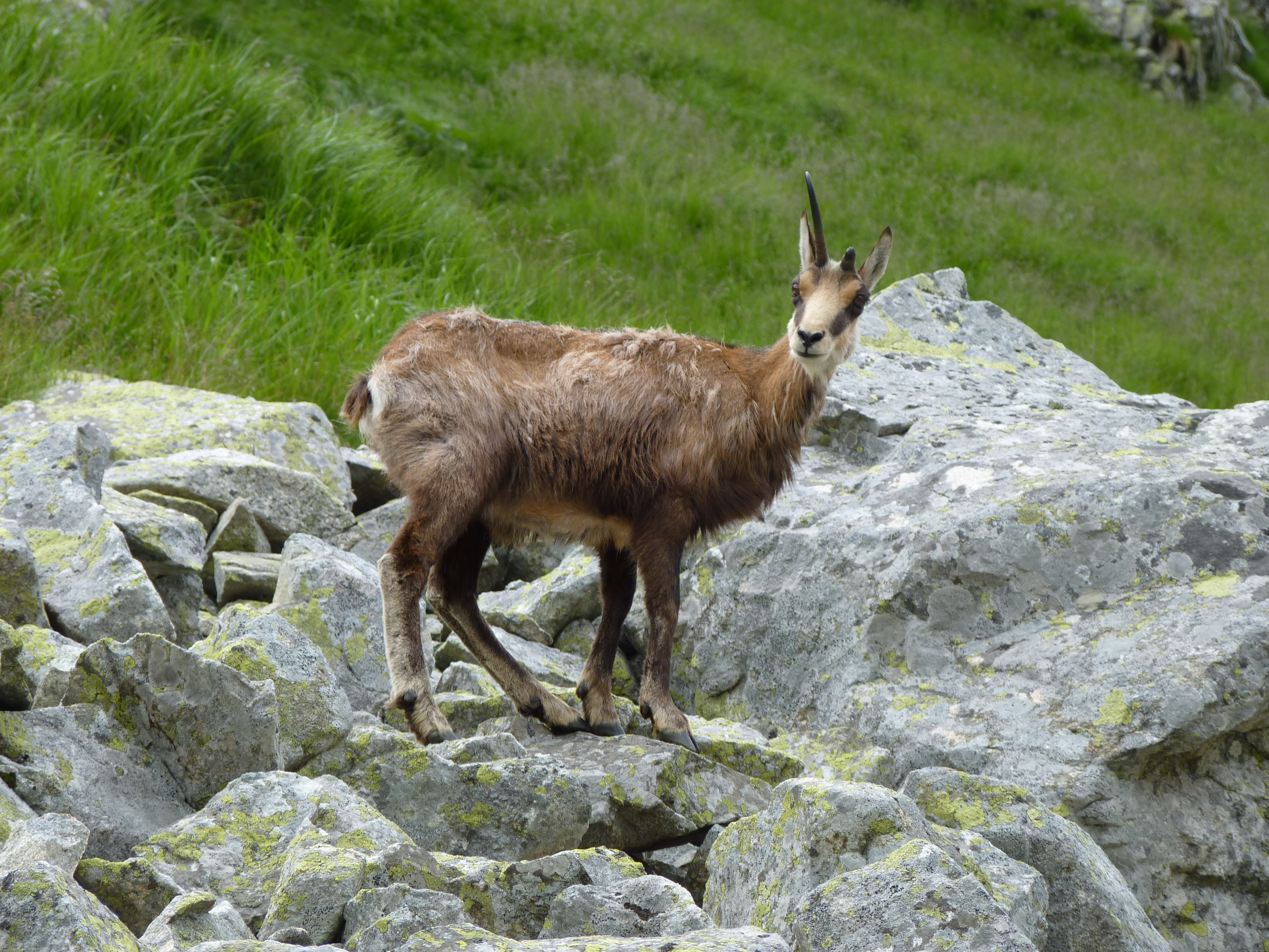 Dolina Bielej vody - path from "Zelene pleso" to "Jahnaci stit", High Tatras, Slovakia